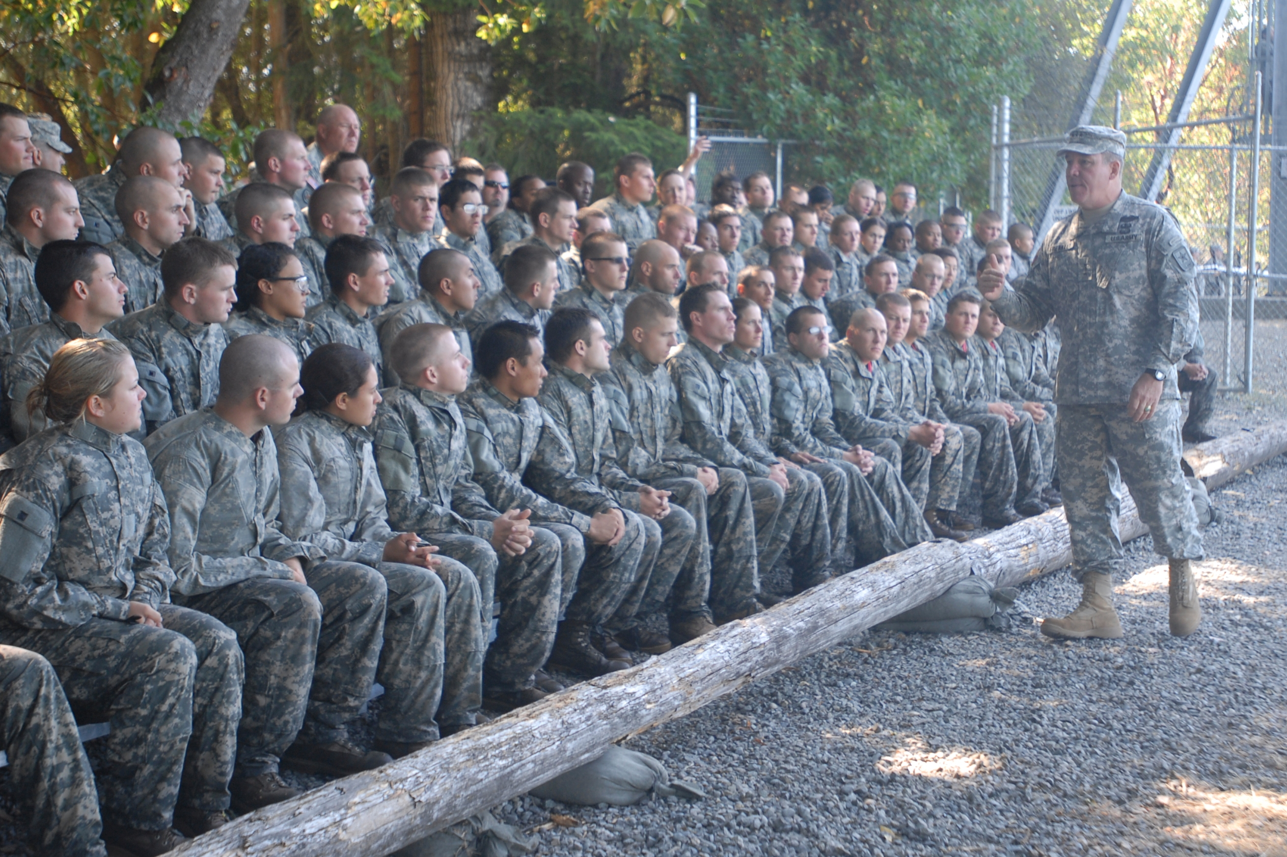 ROTC cadets take a break from Leader Development and Assessment Course training to engage in a question and answer session with Lt. Gen. Benjamin C. Freakley (right), commander of U.S. Army Accessions Command and Training and Doctrine Command's deputy commanding general for initial military training, July 19, at Fort Lewis, Wash. See more at Army looks to refine initial officer training